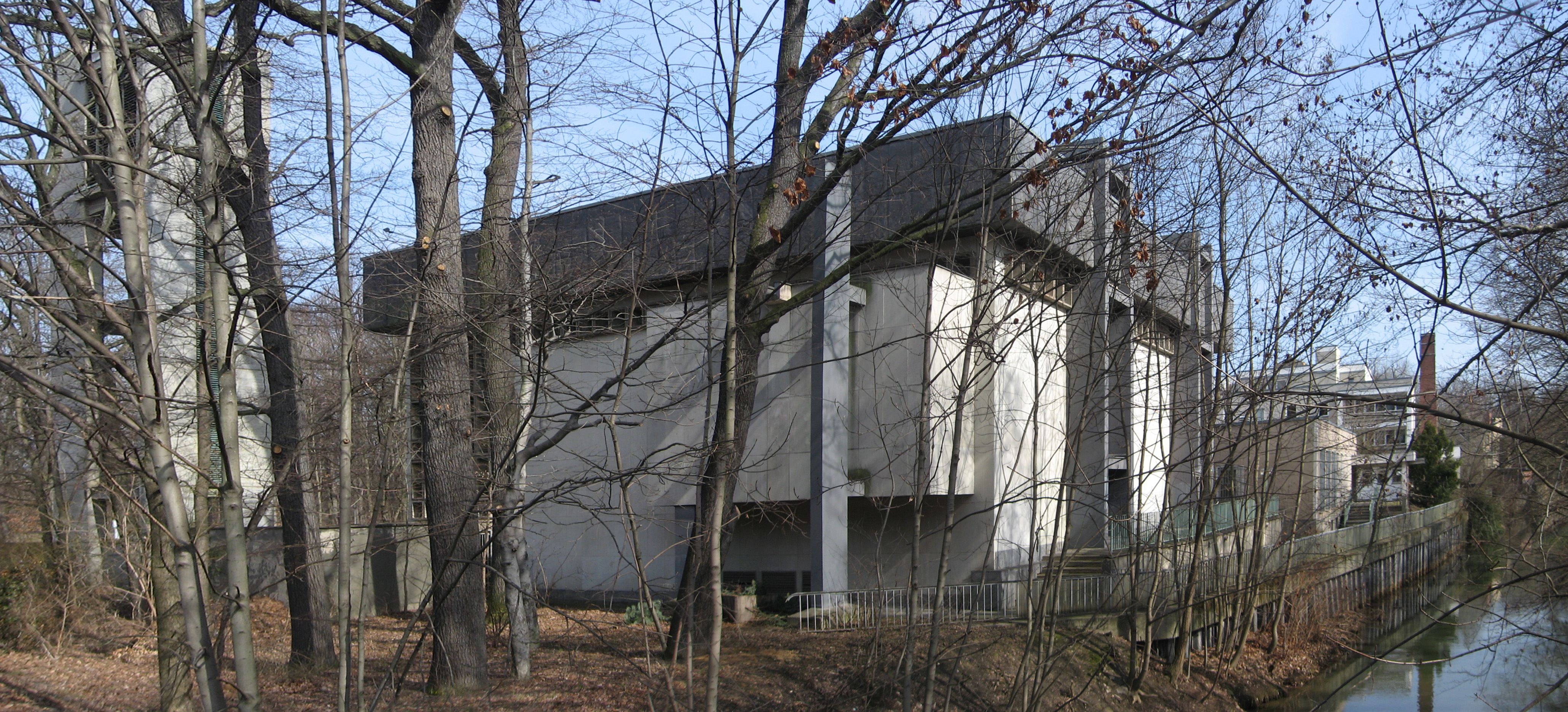 Community center of the Provost's Church of the Holy Trinity in Leipzig, Emil-Fuchs-Strasse 5—7}, viewed from the direction of Elstermuehlgraben